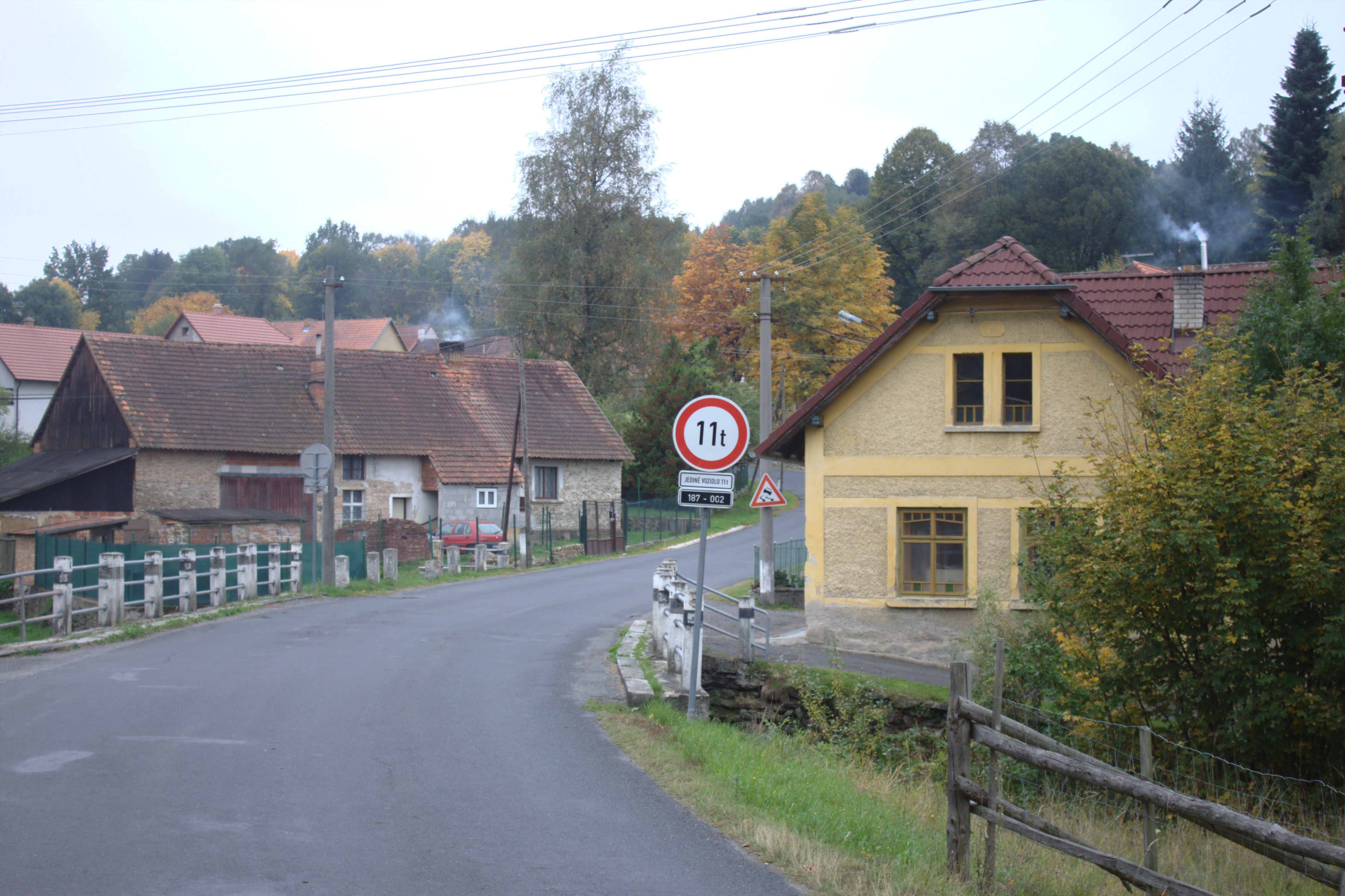 A building in the village of Bližanovy, Plzeň Region, CZ